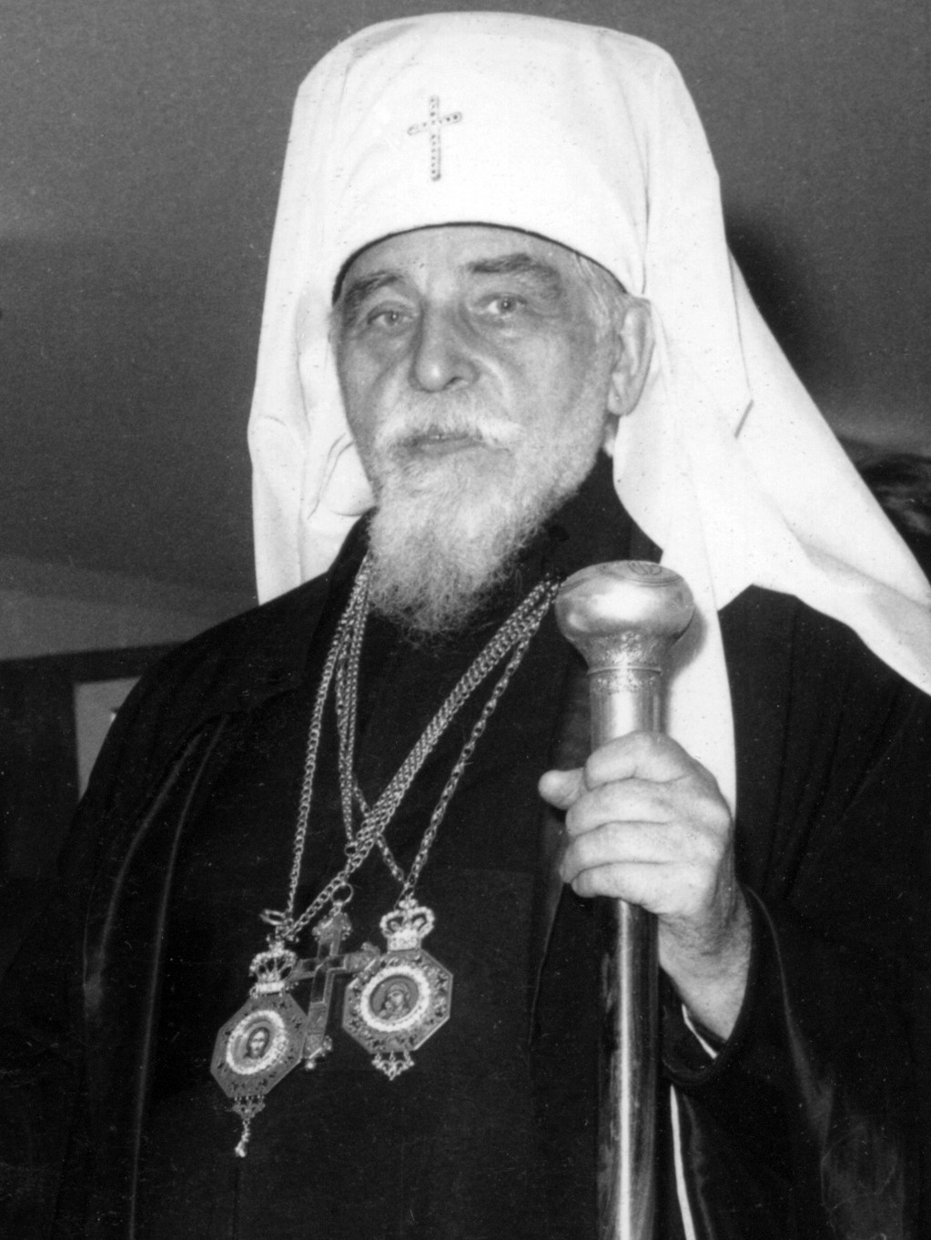 Cardinal Yosyp Slipyj, a Major Archbishop of the Ukrainian Greek Catholic Church and a Cardinal of the Catholic Church. This is a cropped detail from a larger photo of the Cardinal being presented a painting by Michael Sadowskyj, while visiting the annual exhibition of the Ukrainian Artists Society of Australia held in the Ukrainian Catholic church hall in Lidcombe in October 1968.